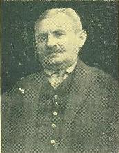 Portrait of IMARO member Atanas Yanakiev Markovski from Babchor, today Vapsorion, Greece